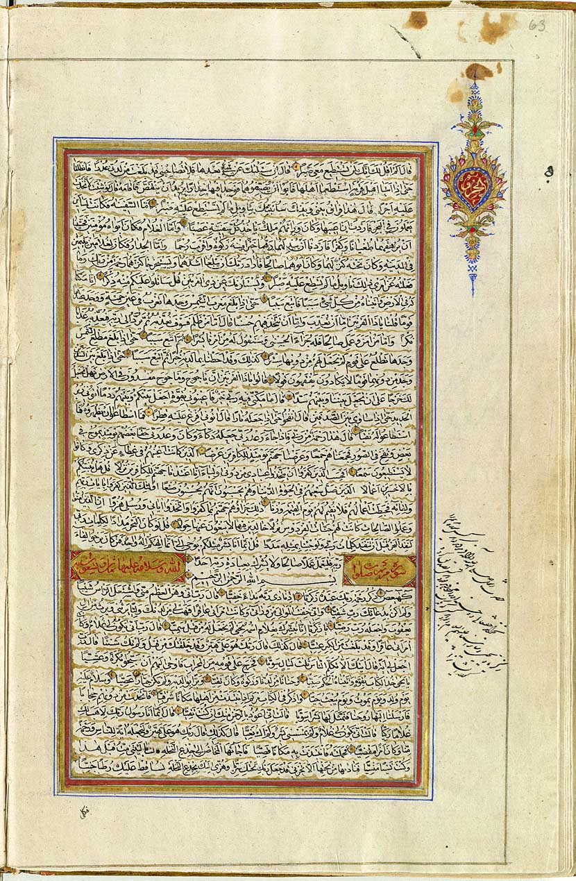 Scan of a Qur'an from the year 1874